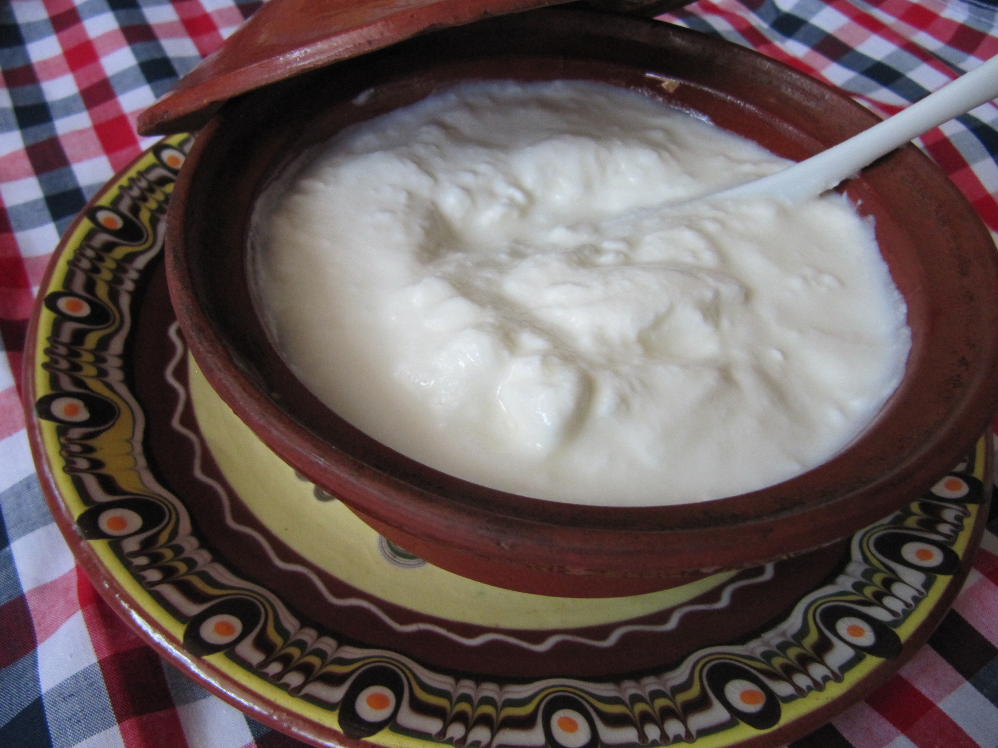 Bulgarian yogurt (kiselo mlyako)